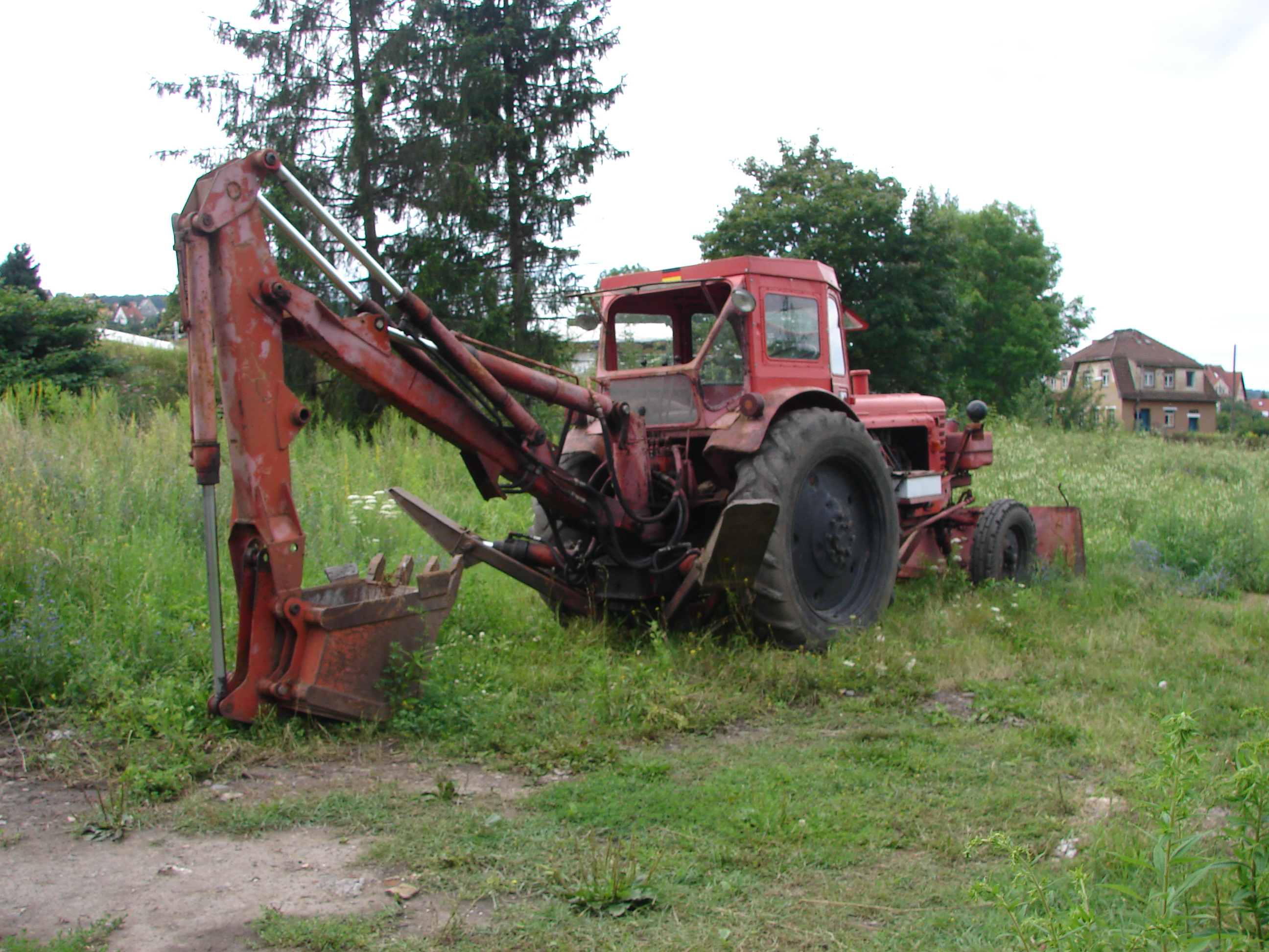 Belarus MTS 5 with straight blade and rear actor, back view